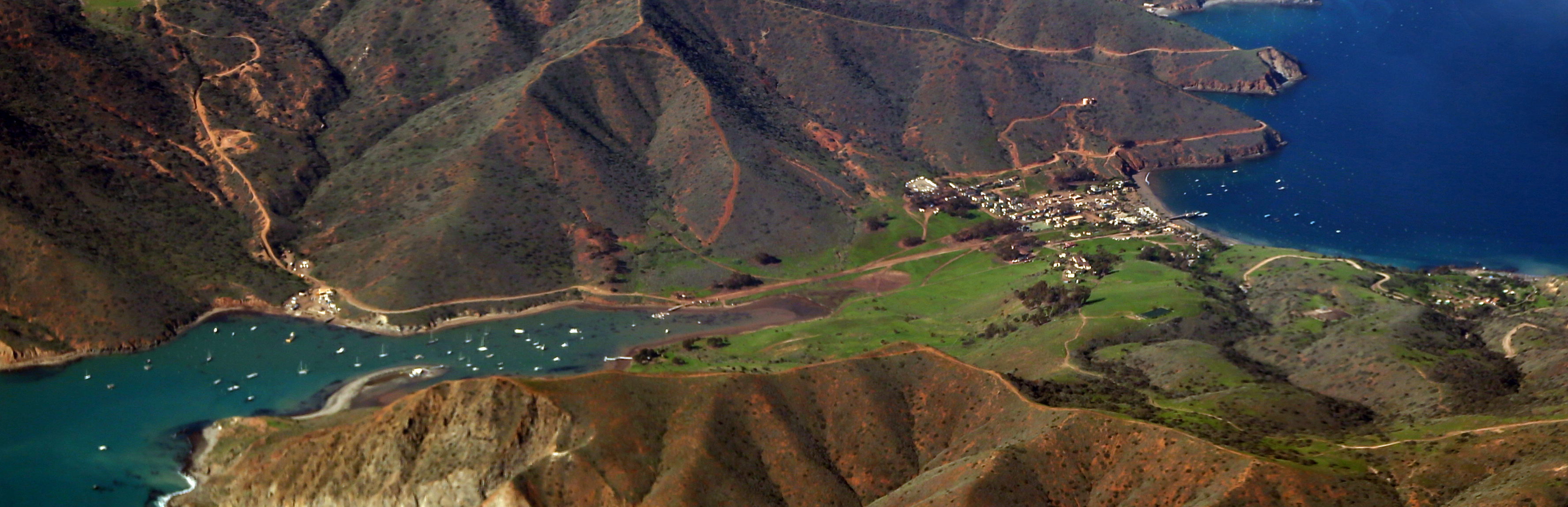 The Two Harbors Isthmus in Santa Catalina Island. On the right or northeast is Isthmus Cove (aka Banning Harbor) and on the left or southwest is Catalina (or Cat) Harbor. The population is under 300, with about 150 permanent residents.